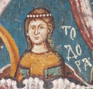 Detail of fresco Loza Nemanjića, Teodora (Dušan`s half-sister), Visoki Dečani, Serbia.